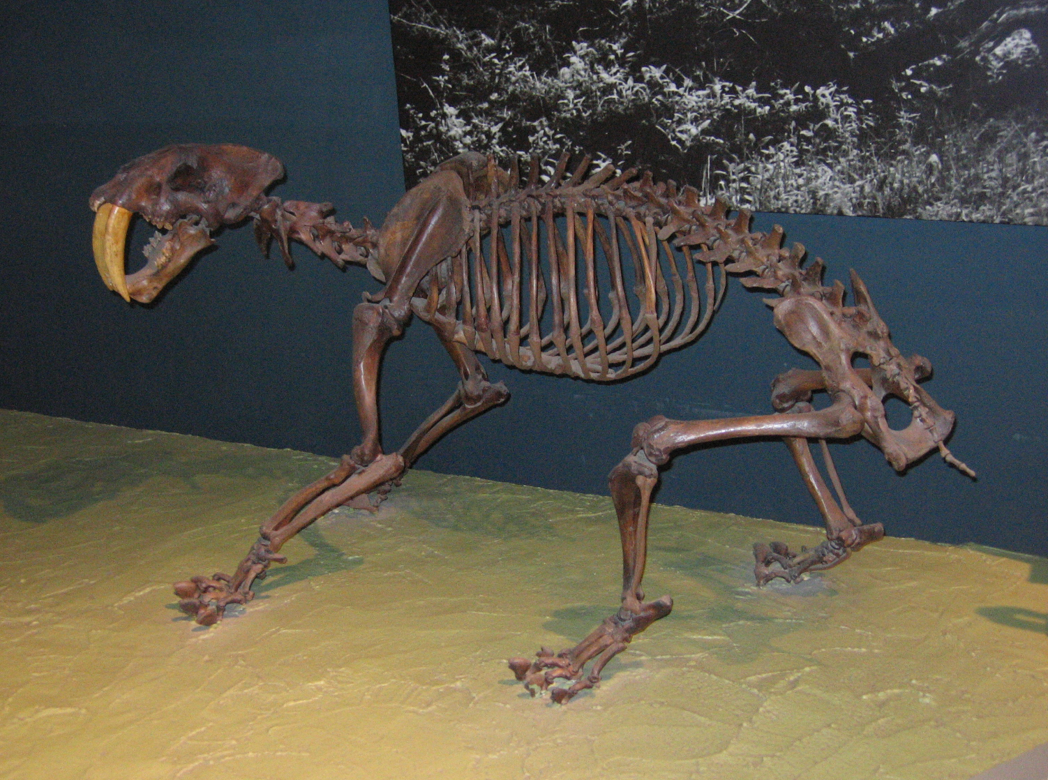 Smilodon californicus fossil at the National Museum of Natural History, Washington, D.C.